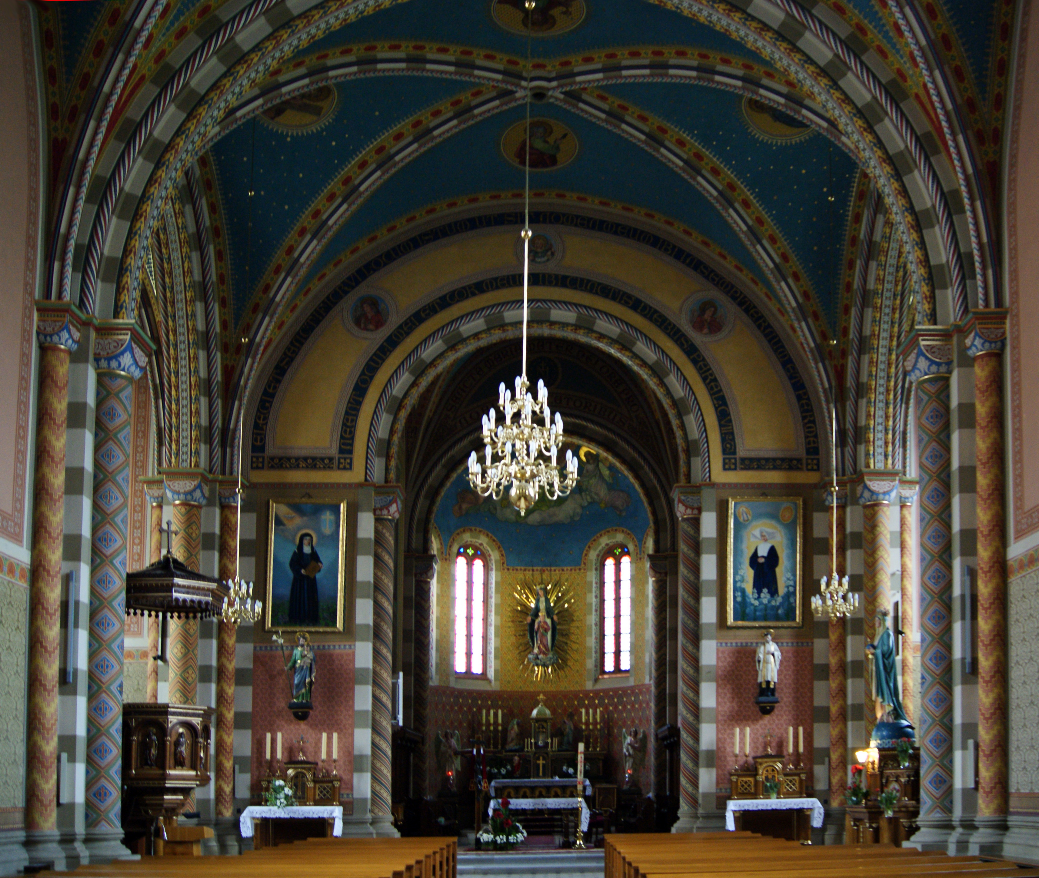 Church of the Sacred Heart of Jesus (interior), 8 Warszawska street, Krakow, Poland